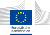 Logo of the European Commission